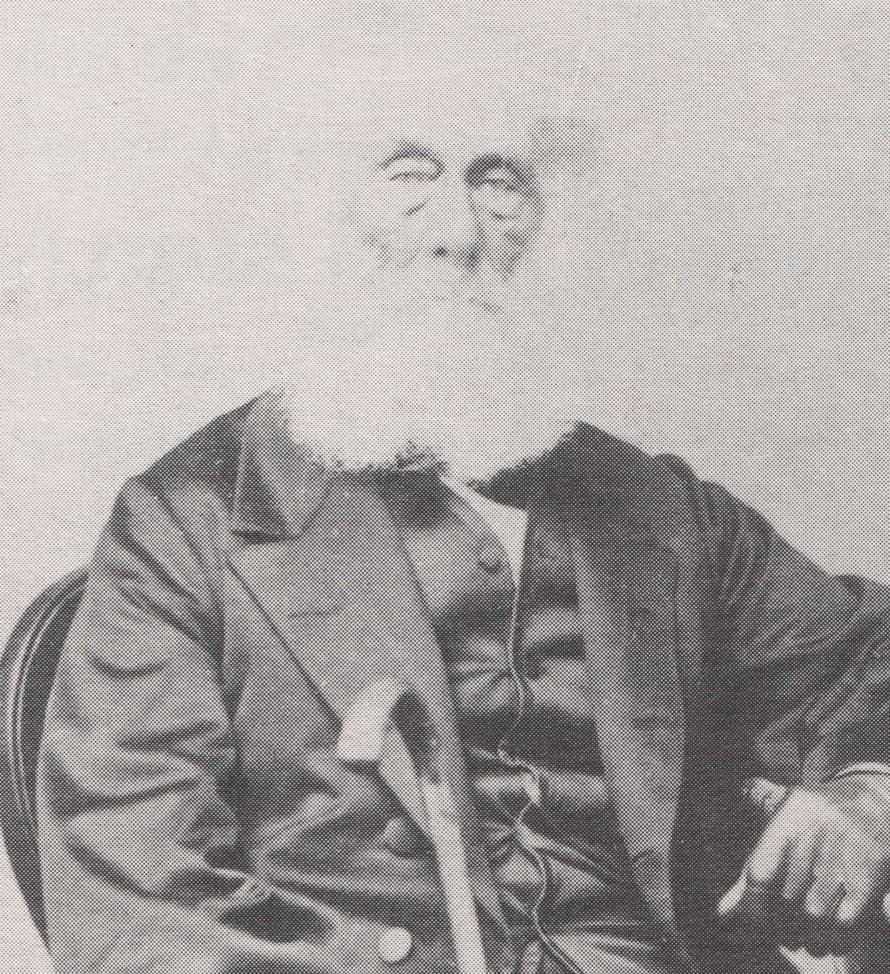 Photograph of William Field Porter, Liverpool ship owner, South Australian pioneer and New Zealand parliamentarian